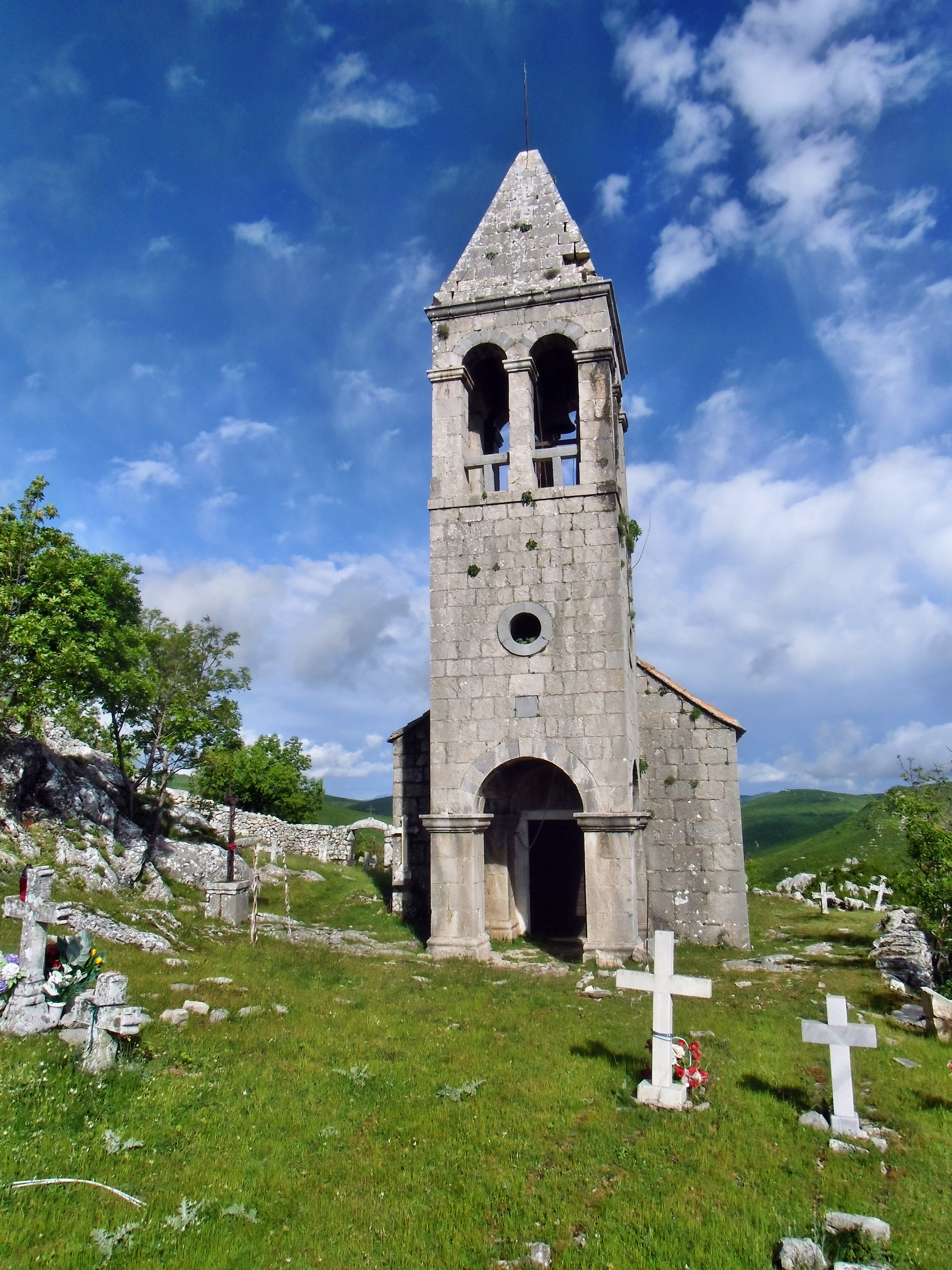 Čačvina castle and All Saints church